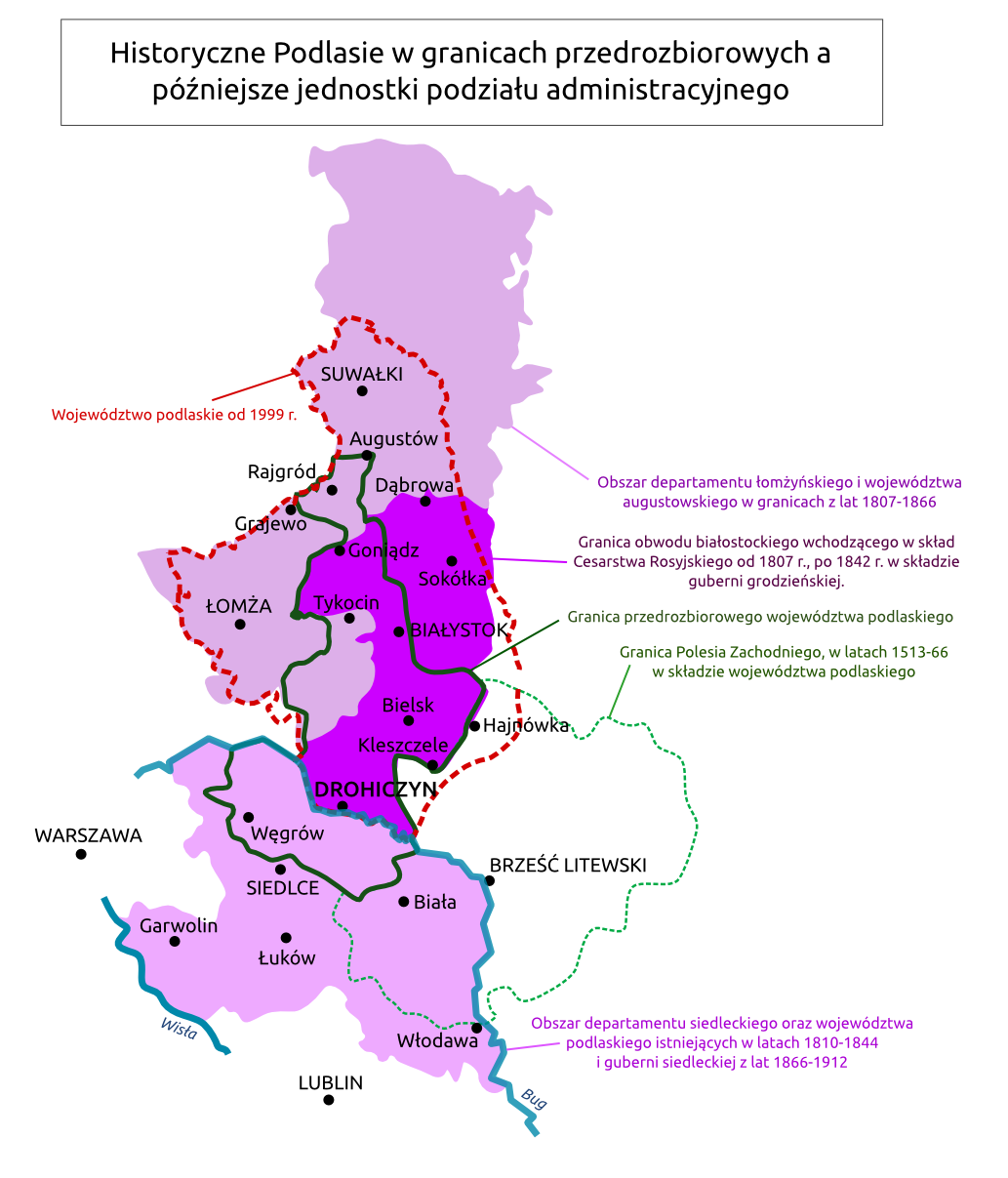 Border changes of Podlachia region, Poland